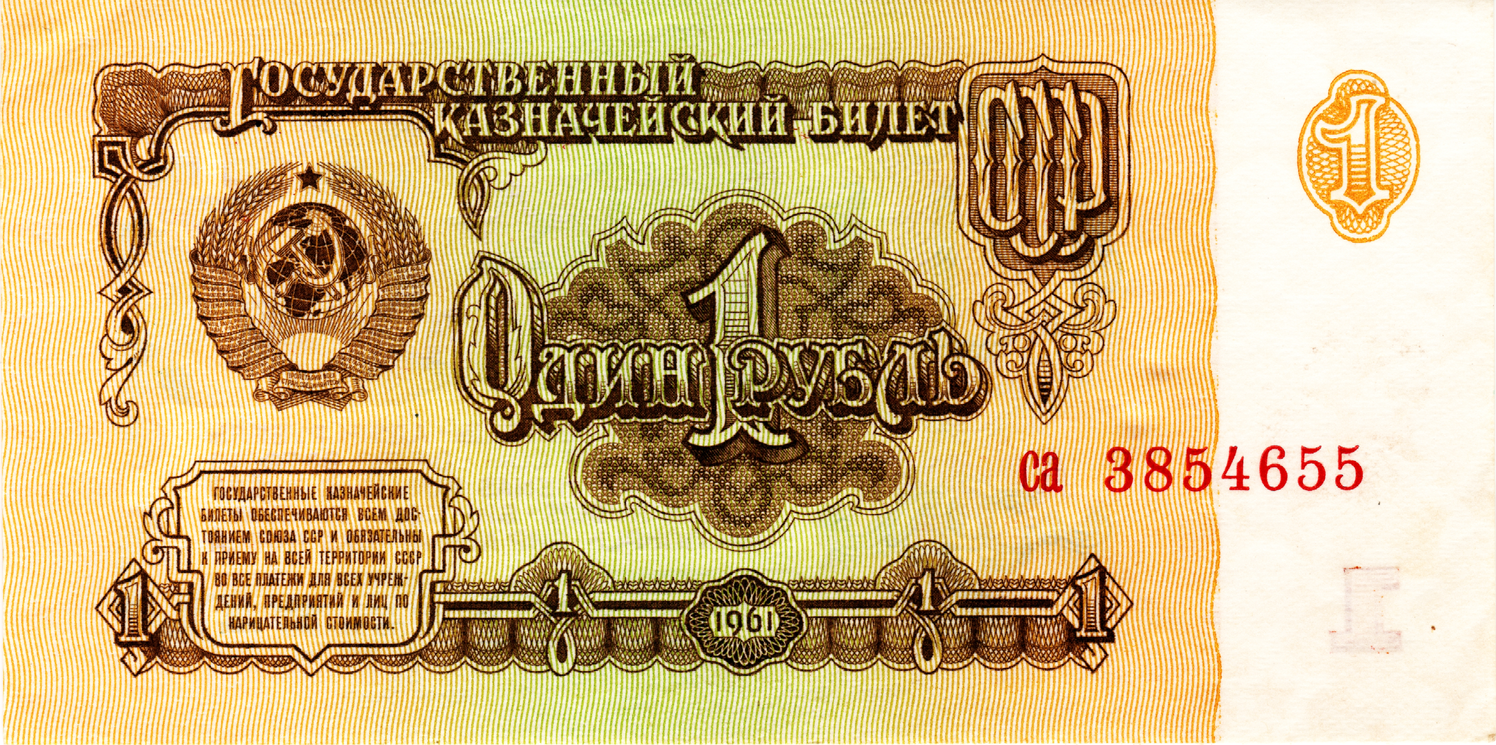 1961 Soviet Union 1 rouble bill. Obverse. Non-natural colours, very contrasted. See also other side Image:Rouble-1961-Paper-1-Reverse.jpg